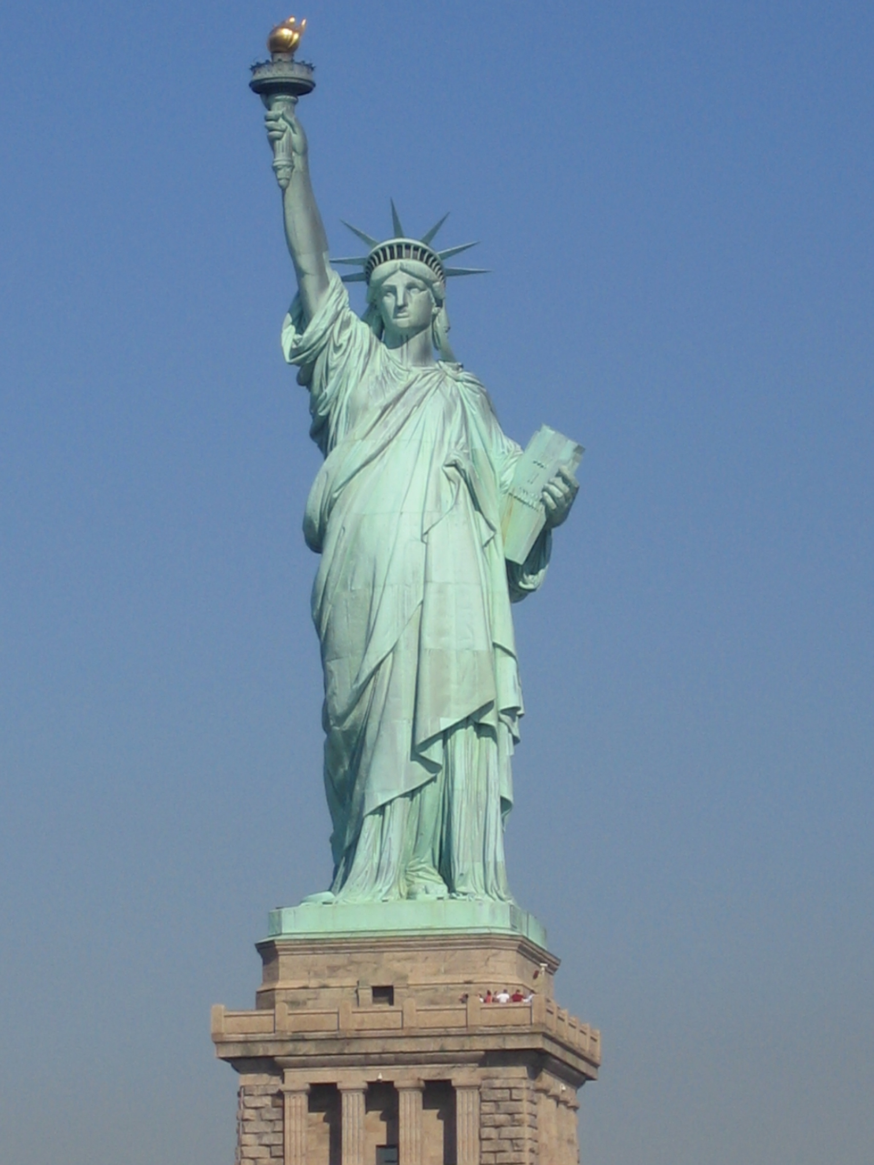 Statue of Liberty, New YorkStatue of Liberty